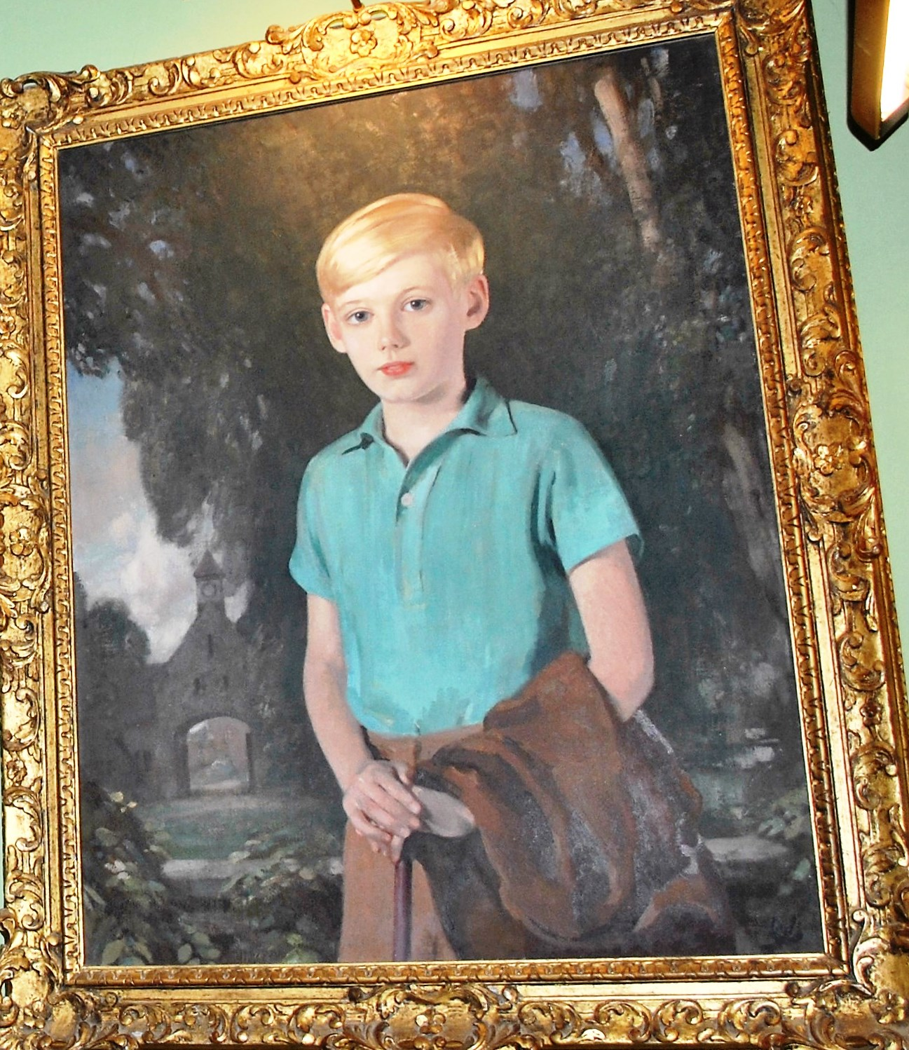 Image originally published in Queer Places: Retracing the Steps of LGBTQ people around the World Authored by Elisa Rolle